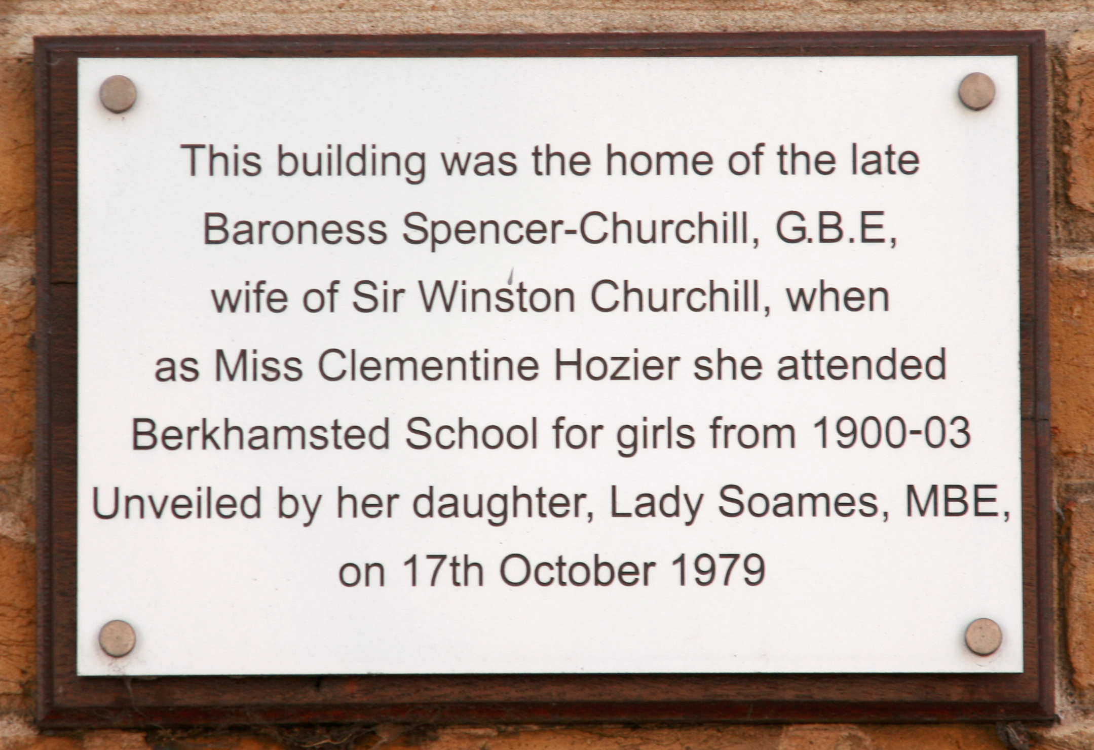 Plaque on home of Clementine Churchill in Berkhamsted, Hertfordshire in the United Kingdom. Inscription: "This building was the home of the late Baroness Spencer-Churchill, GBE, wife of Sir Winston Churchill, when as Miss Clementine Hozier she attended Berkhamsted School for Girls from 1900-03. Unveiled by her daughter, Lady Soames MBE, on 17th October 1979"